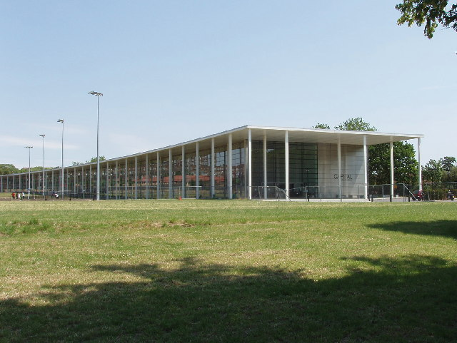 Capital City Academy, Willesden. This new school designed by Foster and Partners opened in September 2003